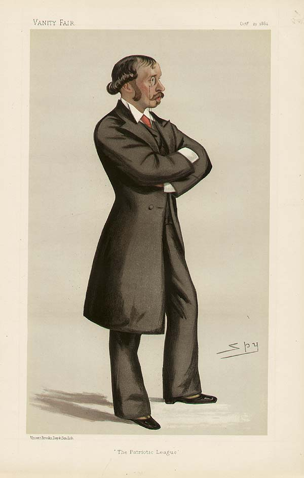 Caricature of Mr E Ashmead-Bartlett MP. Caption read "The Patriotic League".